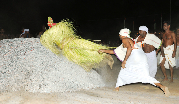 Vishnu moorthy otte kola